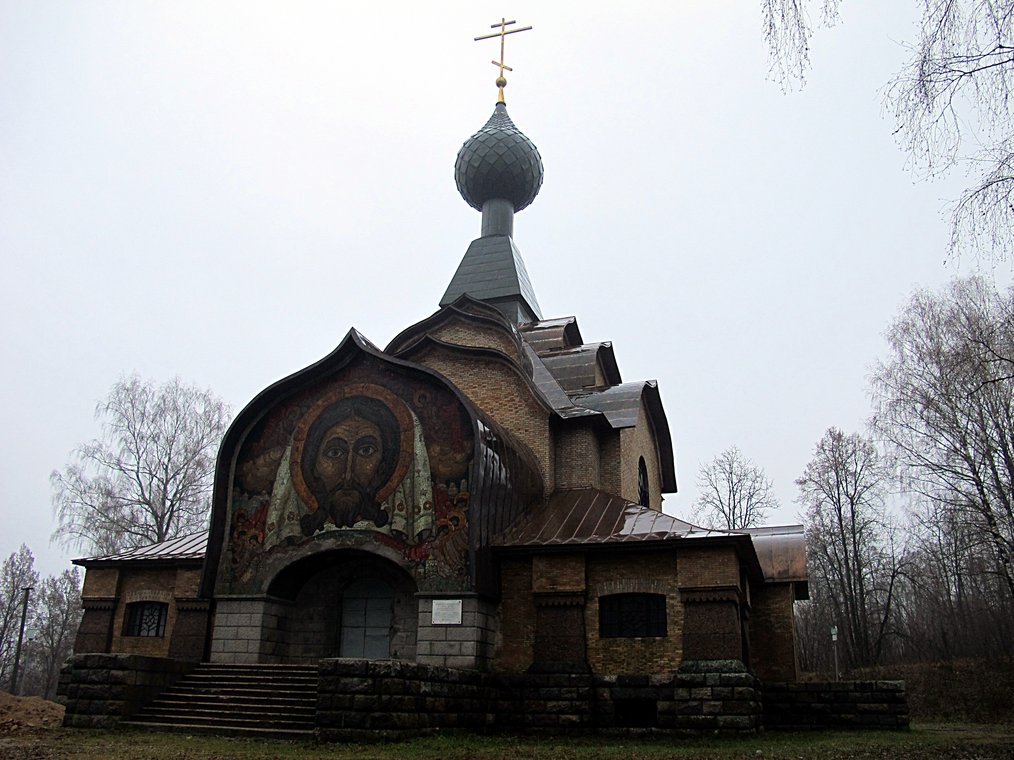 Holy Spirit Church (Talashkino; 2013-11-10)